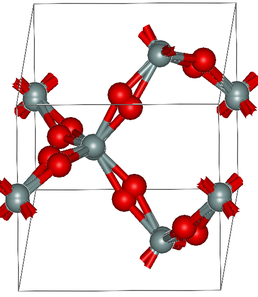 B-quartz, red atoms are oxygens